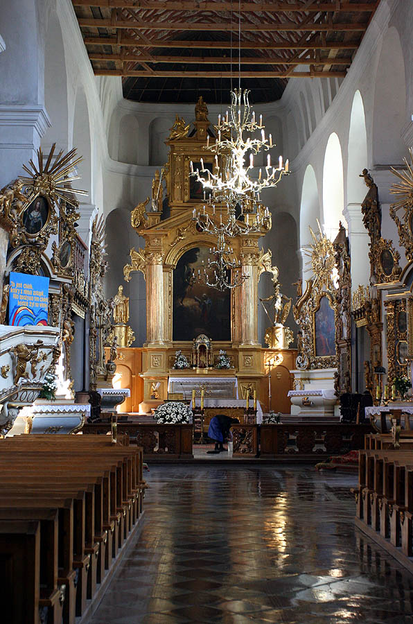 The Interior of the Gothic Church of Bazylika Zwiastowania at Pułtusk, Poland.